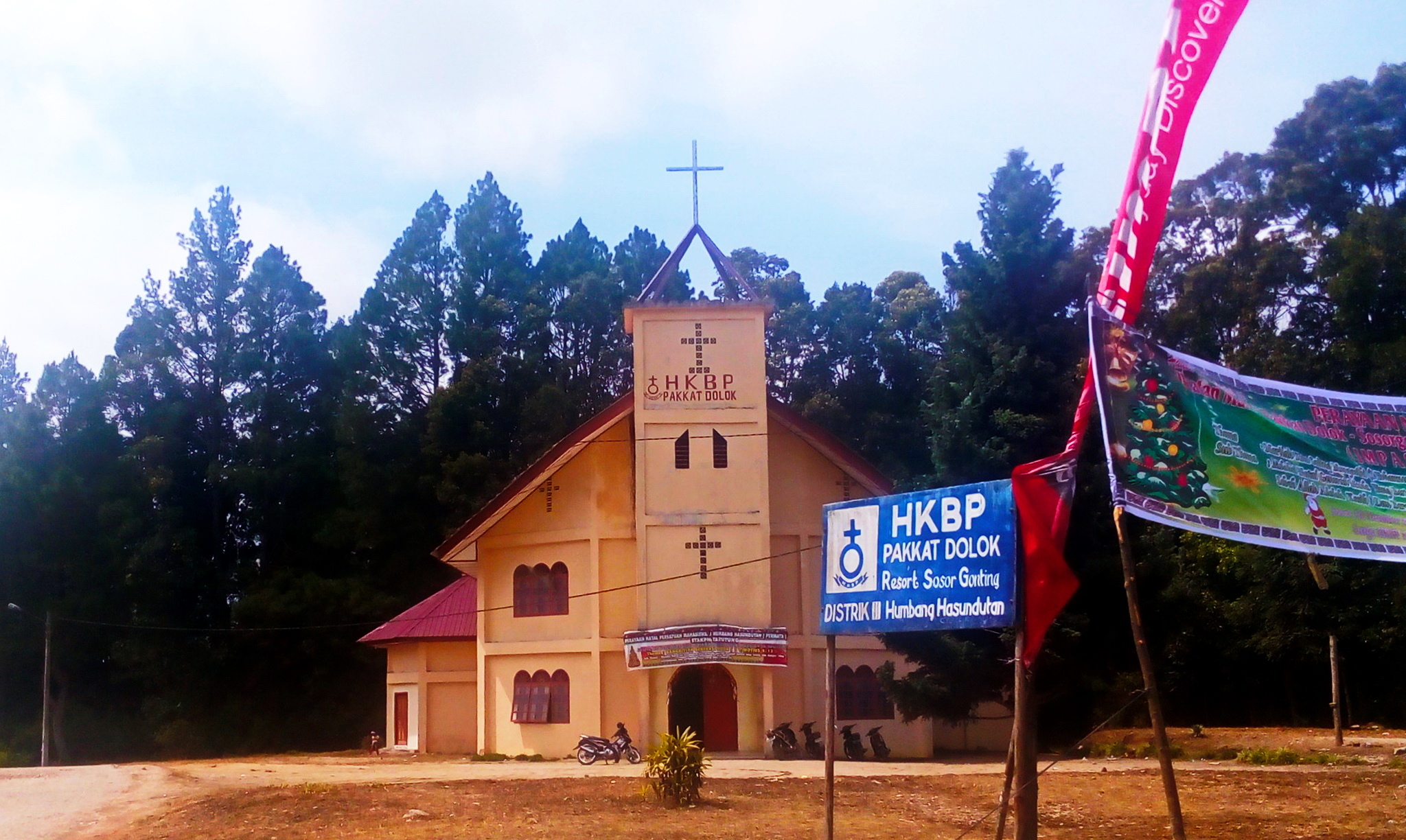 HKBP Pakkat Dolok, Church in Pakkat, Doloksanggul, Humbang Hasundutan